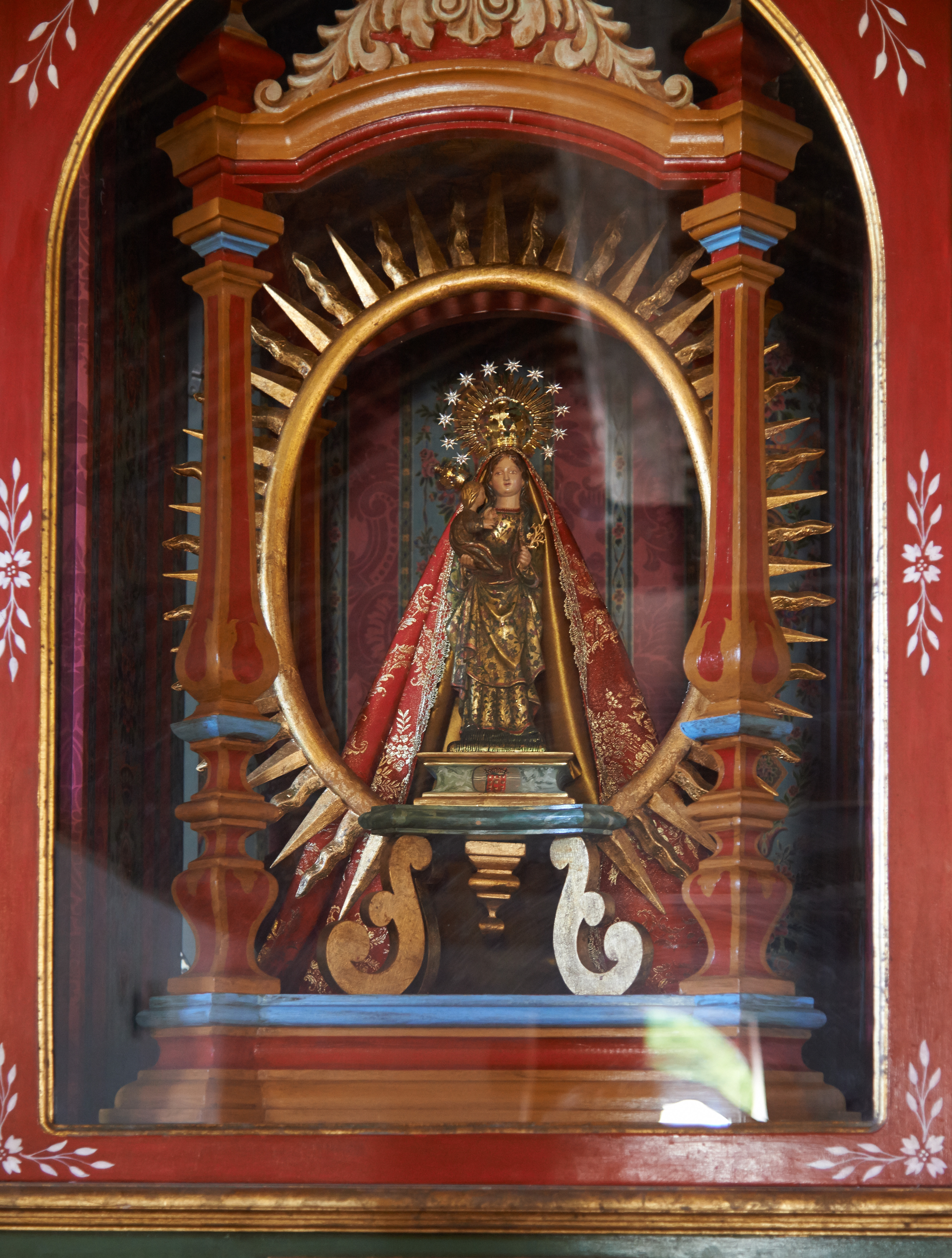 Church in Costa Adeje, Tenerife